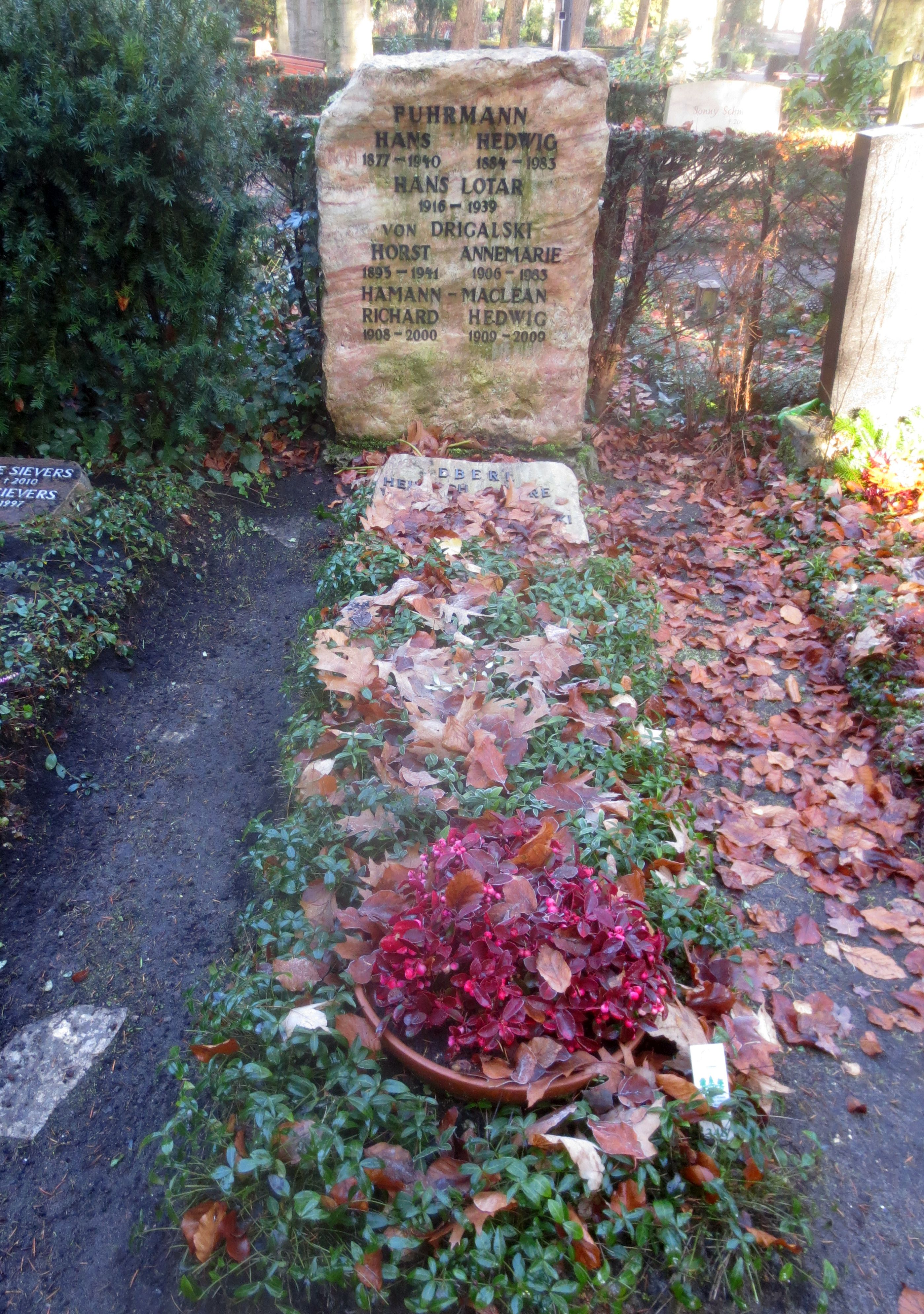 Grave of the art historian Richard Hamann-Mac Lean (1908-2000) on the Friedhof Heerstraße cemetery in Berlin-Westend.